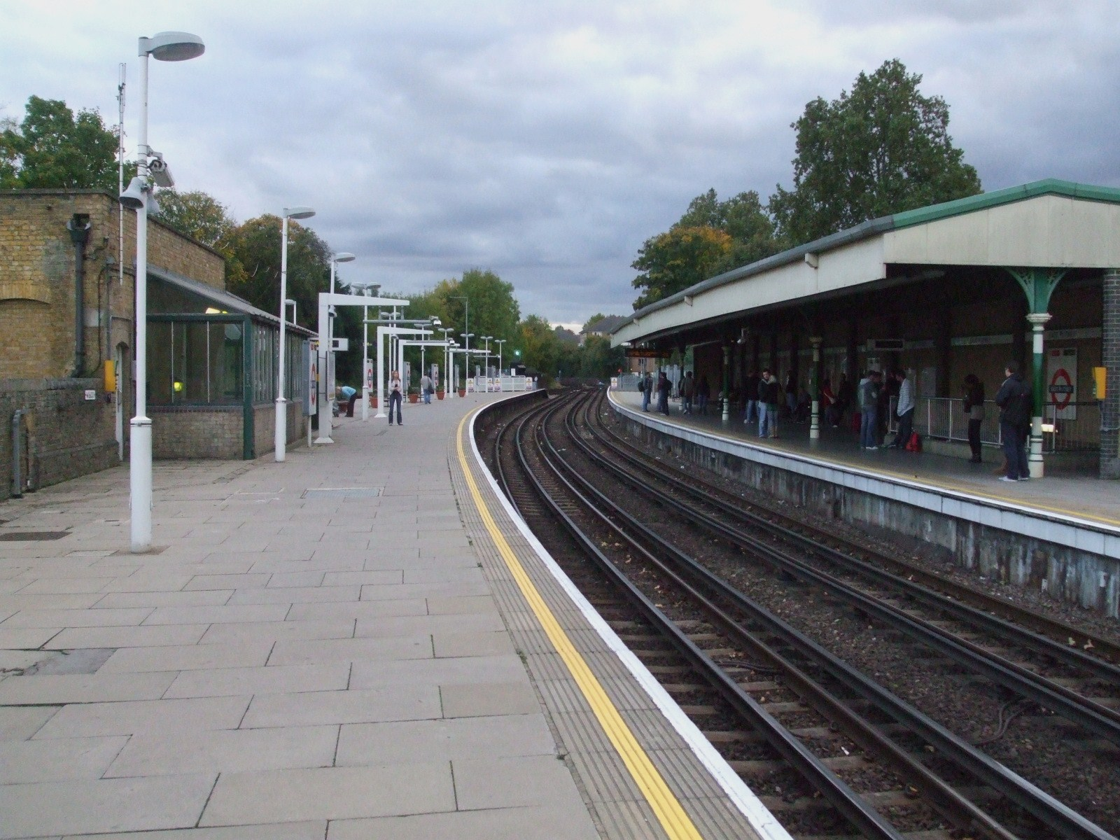 East Putney tube station District line platforms looking south, towards the junction with the main line branch from Wandsworth town. No scheduled main line passenger services call at the station, but a service to Wimbledon uses the line south of here late at night.